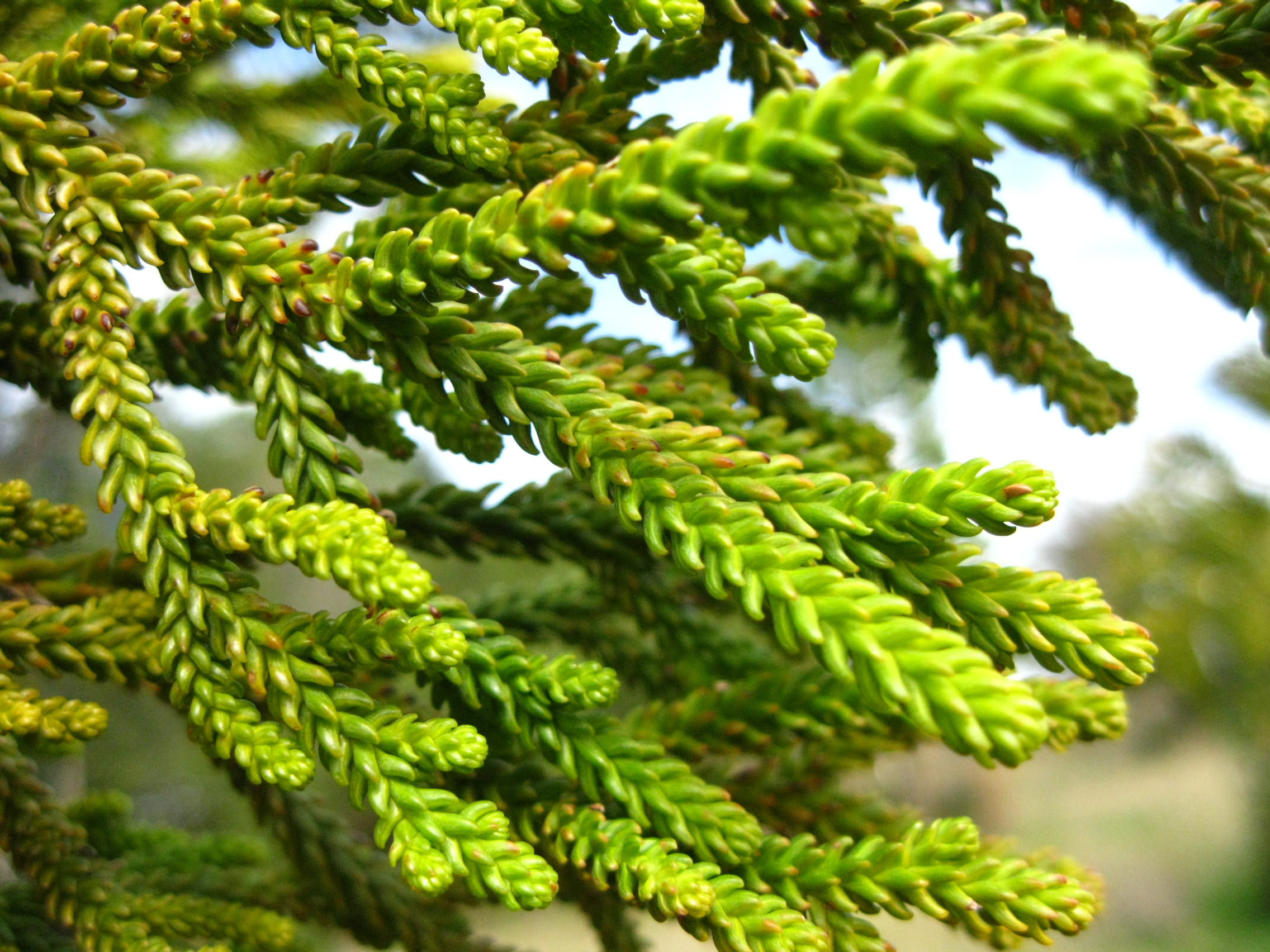 Dacrydium balansae, UCSC arboretum